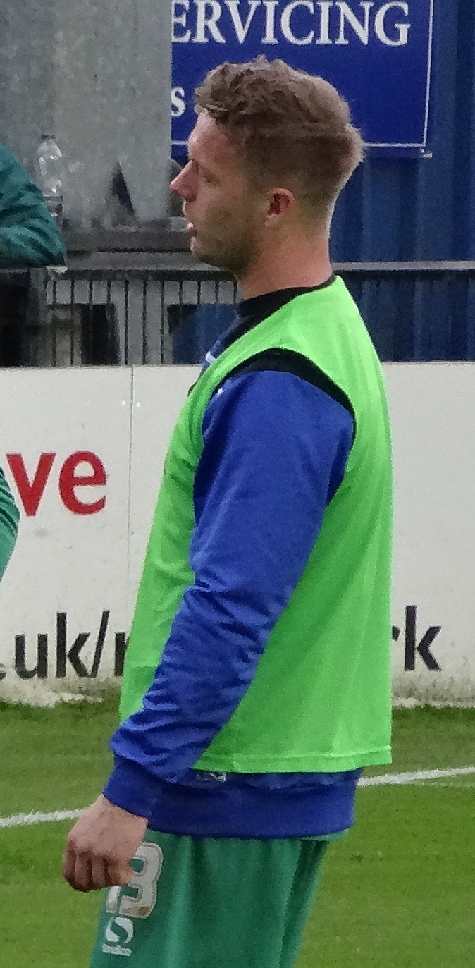 Dan Hanford warming up for Carlisle United against York City at Bootham Crescent, York on 19 September 2015